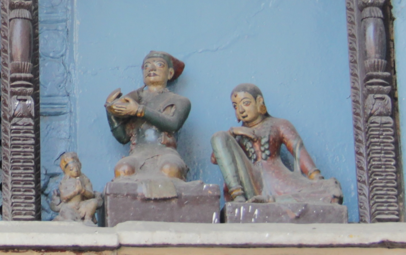 Statue of Pratap Malla above the entrance of Hanuman Dhoka, Kathmandu.